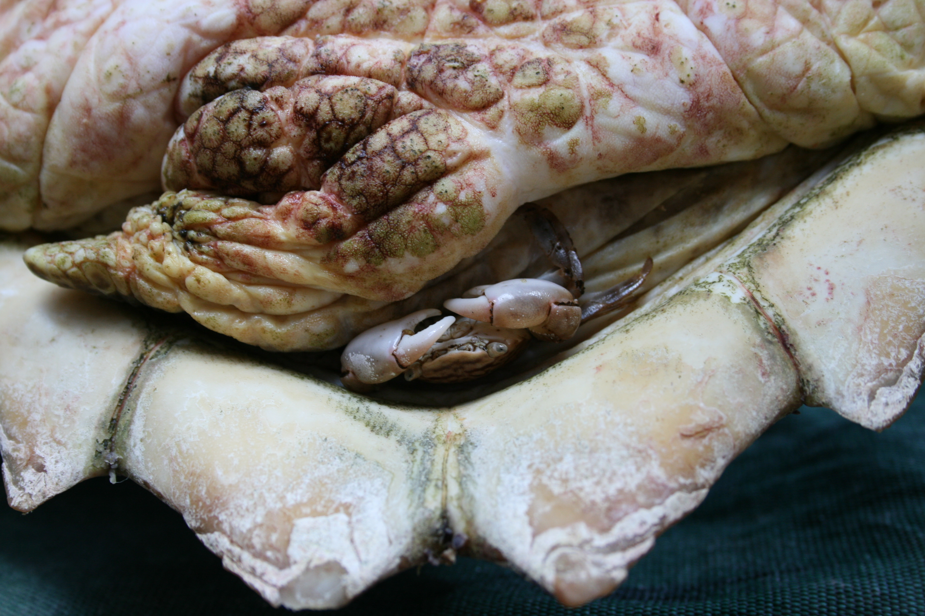 A small crab, Planes minutus (Columbus crab), living on an individual of Caretta caretta (Loggerhead Sea Turtle). This crab is known to prey upon other sea turtles epibionts. Attribution: Maristella D'Addario (University of Rome).